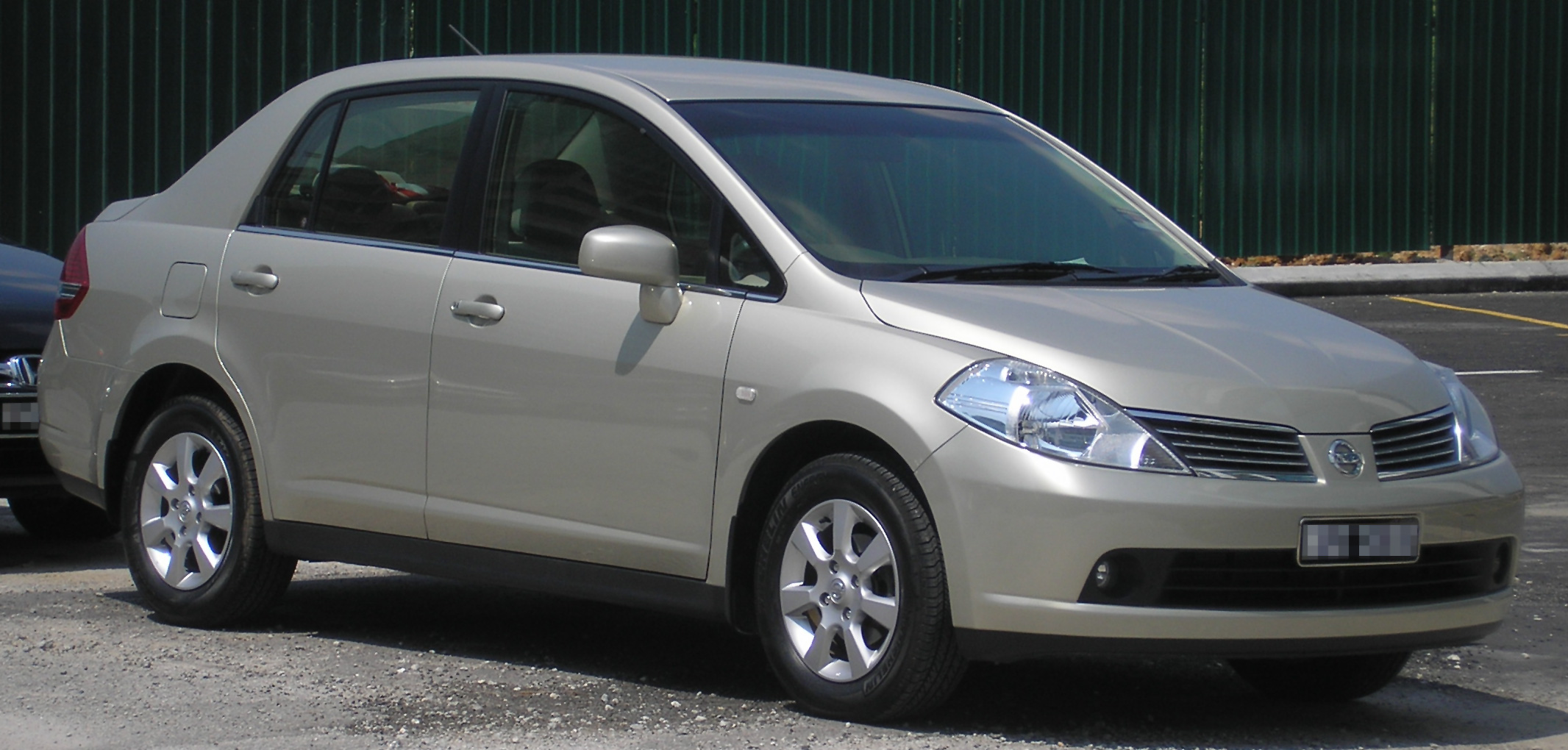 Front quarter view of a first generation Nissan Latio sedan, in Serdang, Selangor, Malaysia.